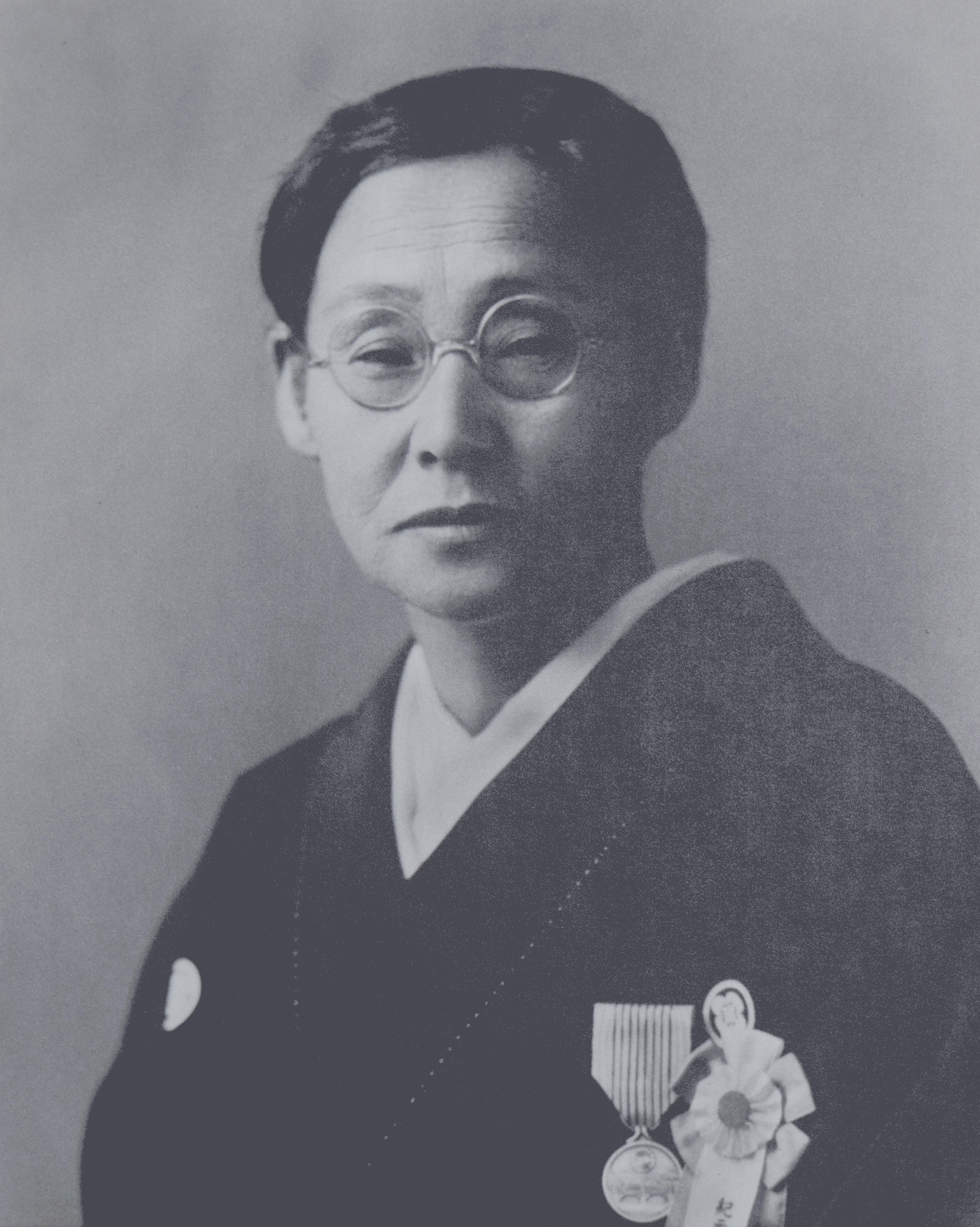 shibata yasu photo